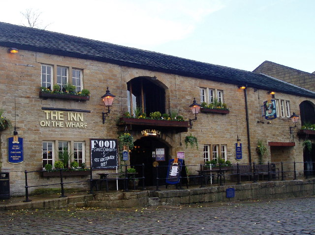 The Inn on the Wharf. Converted canalside building on the Leeds-Liverpool canal